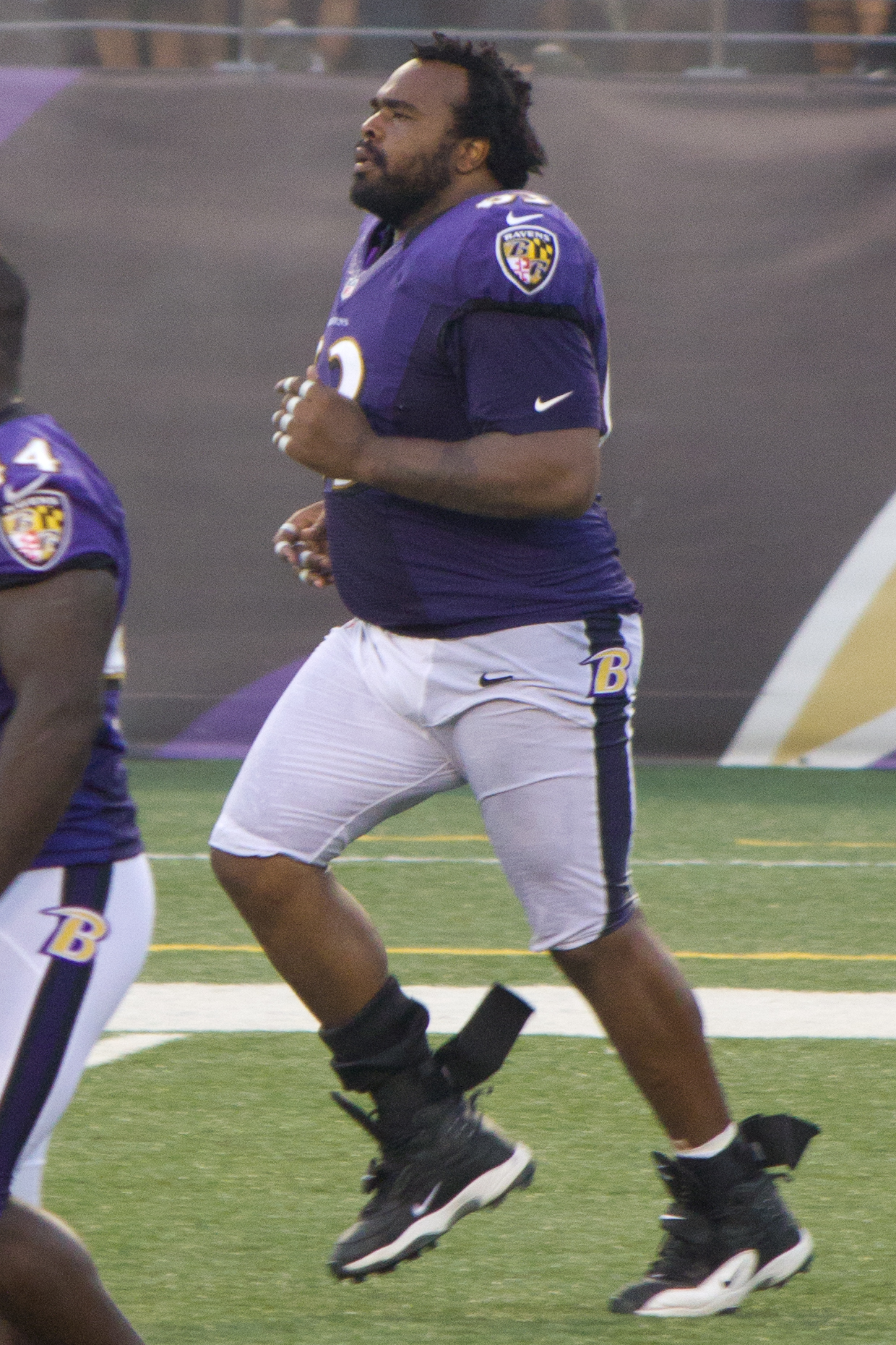 Bobbie Williams at Ravens M&T Bank Stadium practice in August 2012